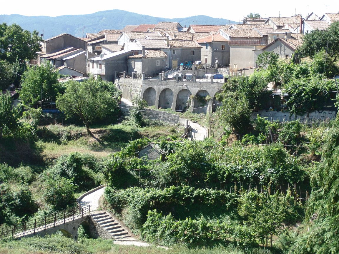 Fabrizia Vv - view from the Town Hall